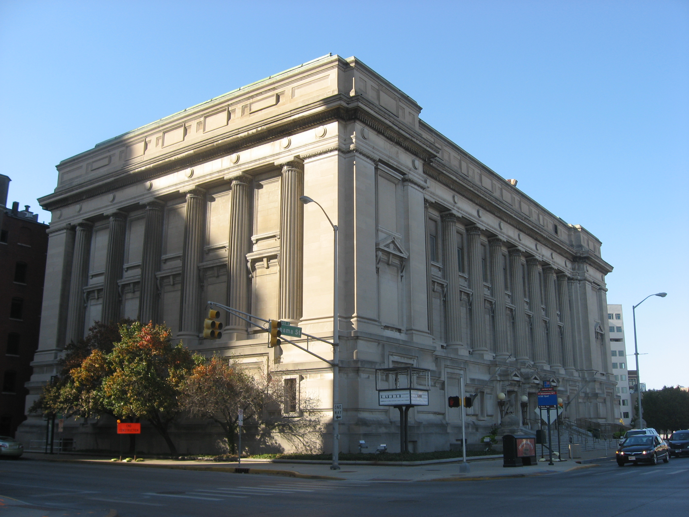 Front of the Old Indianapolis City Hall, located at 202 N. Alabama Street in Indianapolis, Indiana, United States. Built in 1910, it is listed on the National Register of Historic Places.